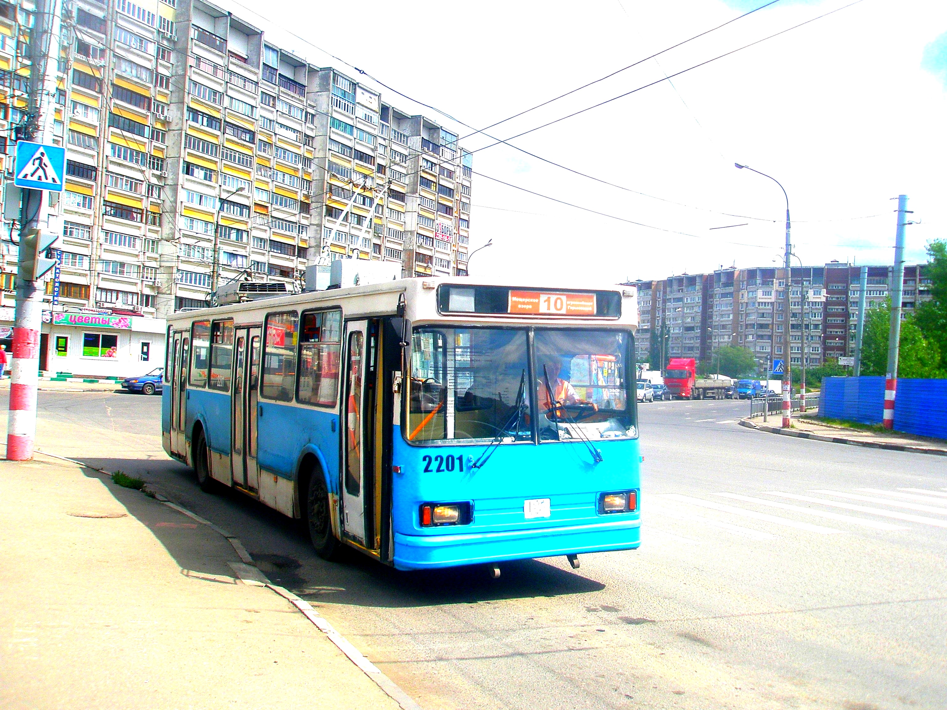 Trolleybus AKSM-201-01 number 2201 in Nizhny Novgorod